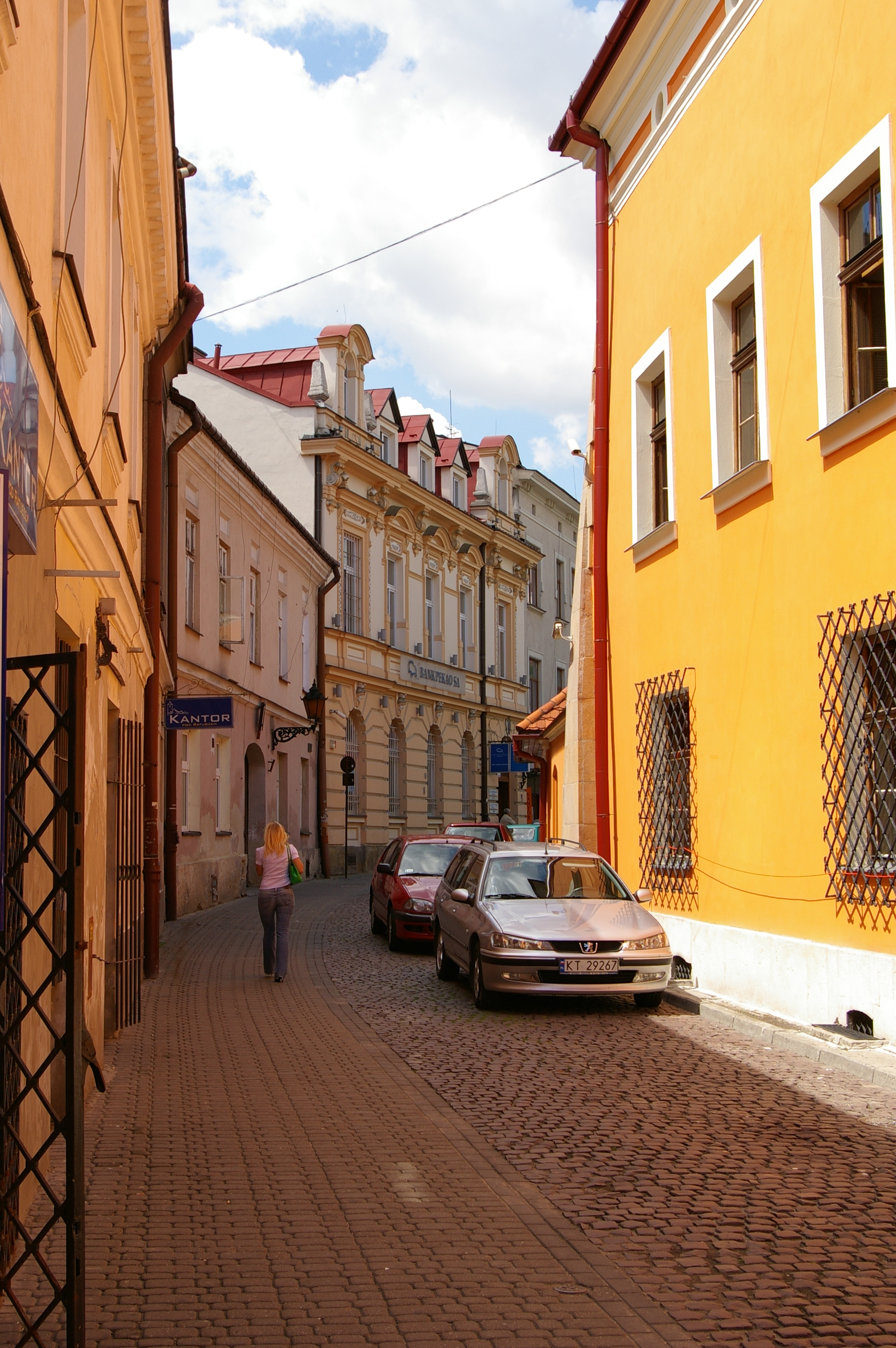 Old town in Tarnów, Krótka str.